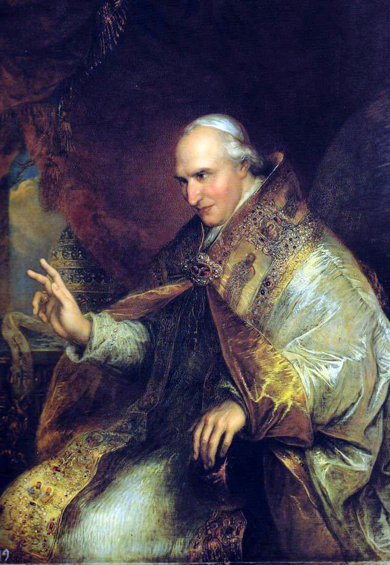 Painting of Pius VIII (Pio VIII)